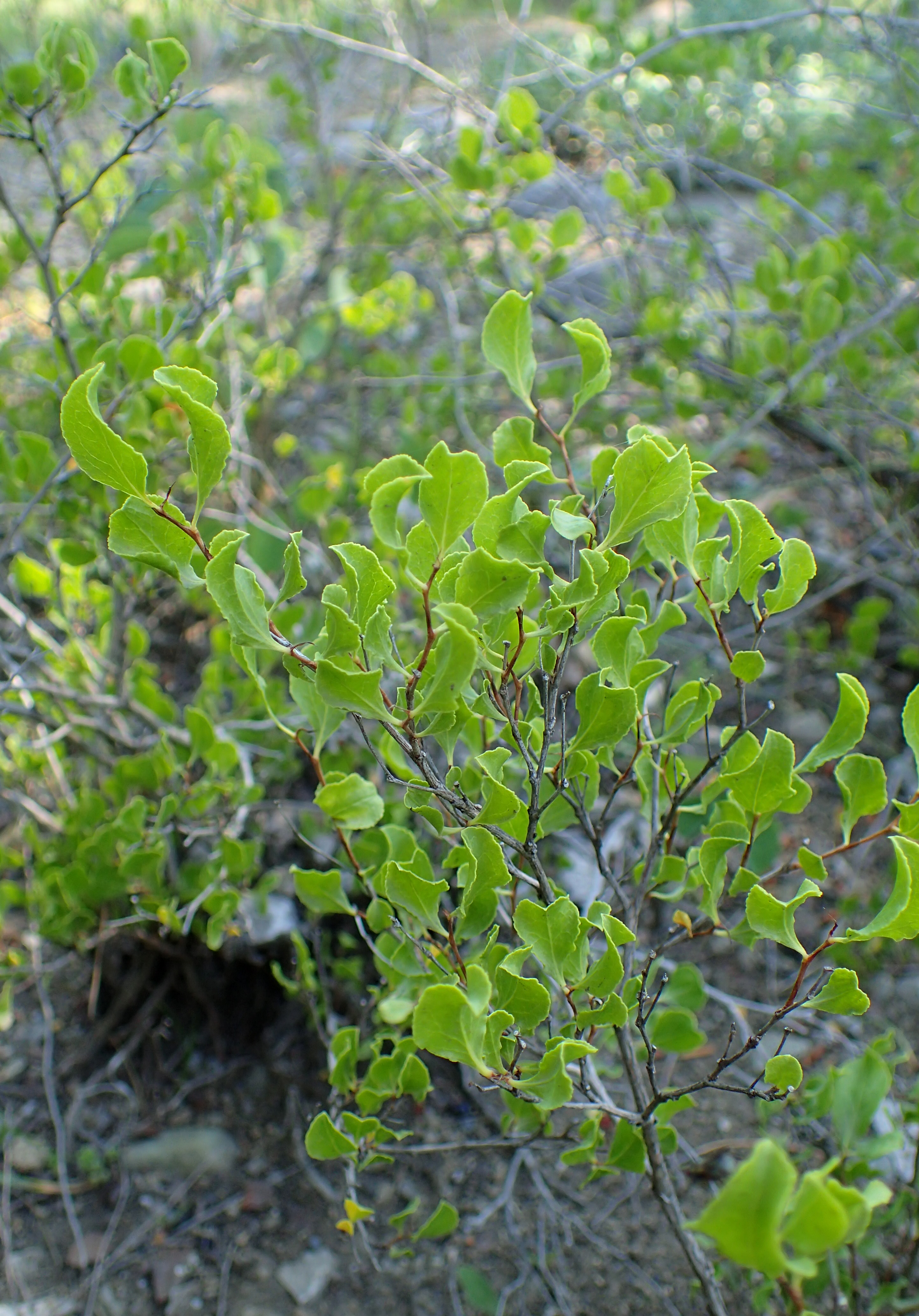 Atraphaxis caucasica in Botanical Garden in Tbilisi